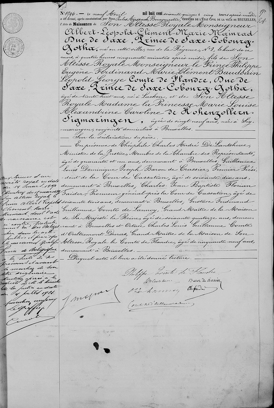 Birth act of futur Albert I, King of Belgians, then prince Albert of Belgium (born 8th april 1875) laid under the authority of Burgomaster Jules Anspach, Civil Record Officer of Brussels.